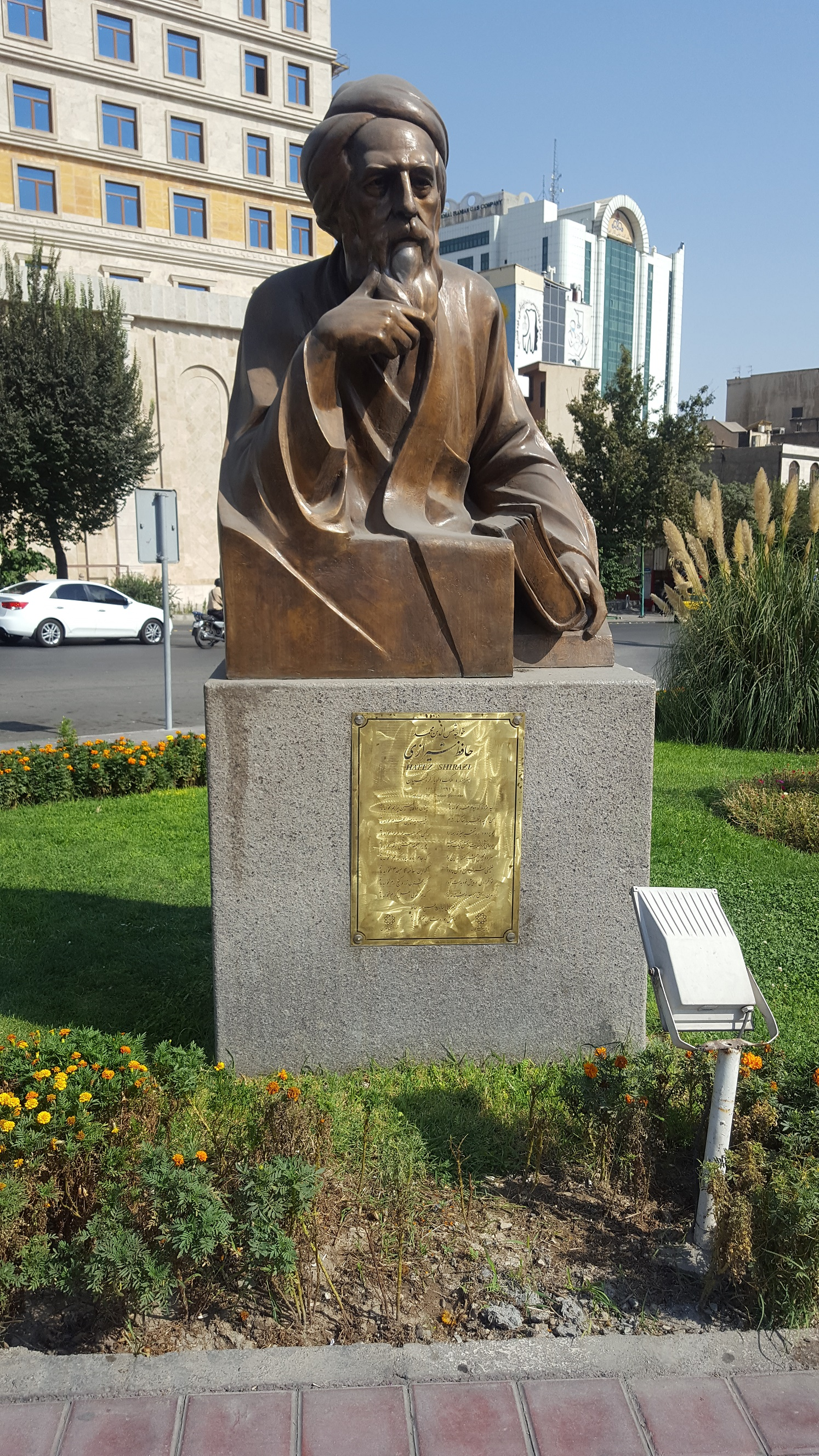 Hafez statute, Tehran, Iran